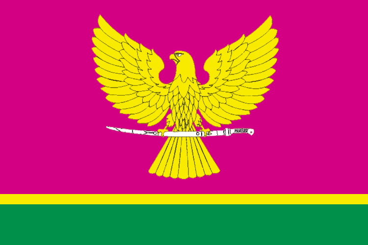 Flag of Novotitarovskoe rural settlement, Krasnodar Krai, Russia